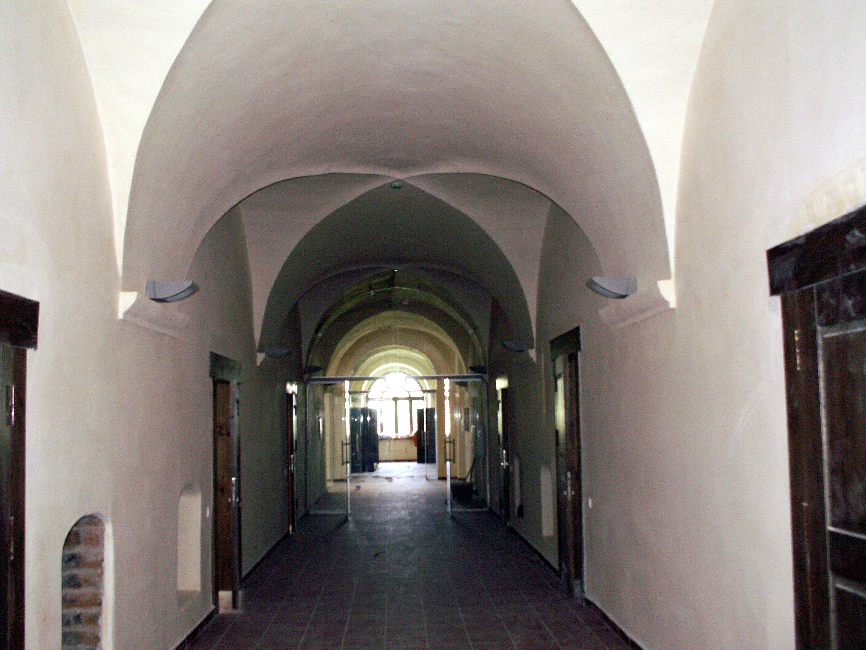 Kražiai collegium